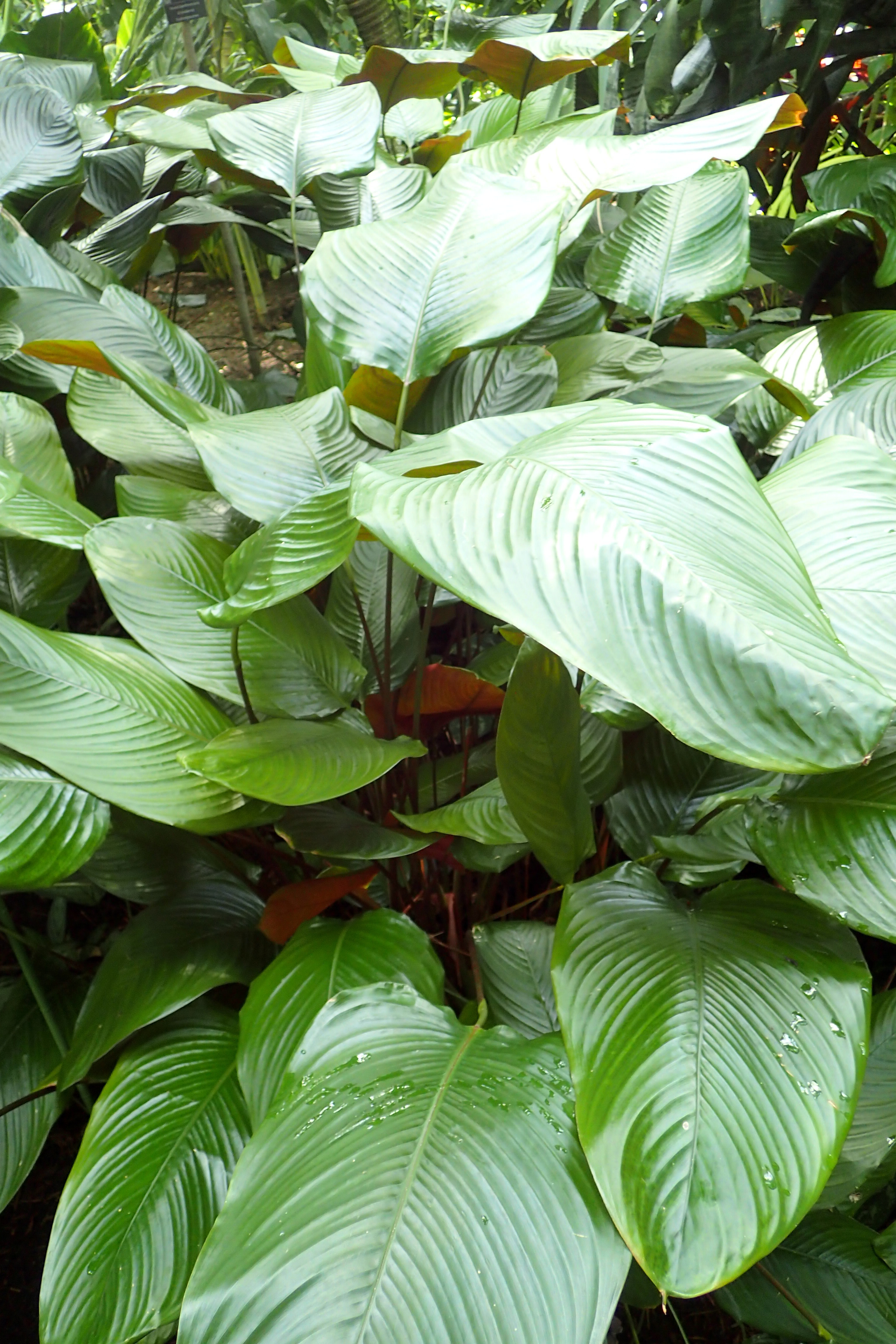 Marantochloa conferta in Boltz Conservatory, Madison, Wi